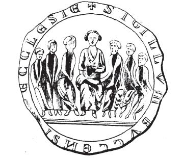 Seal of Collegiate church of Bücken from 1323, Lower Saxony, Germany.